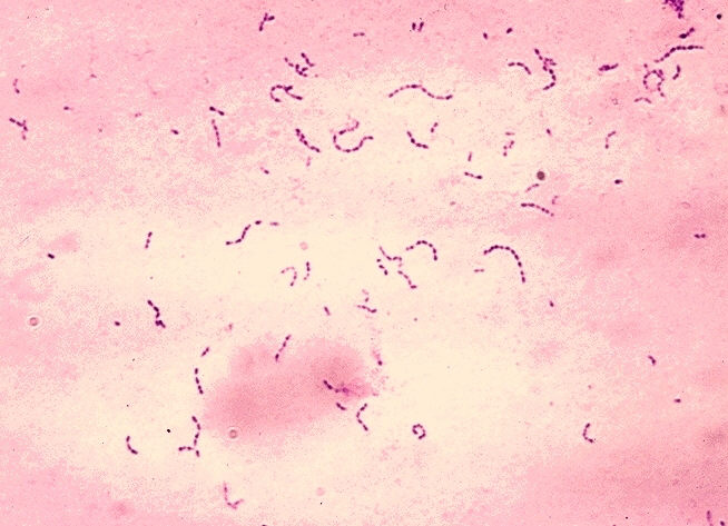 Streptococcus mutans. Gram stain. Thioglycollate culture. Morphology is rod-like with chains when cultured on broth. Can cause subacute bacterial endocarditis and dental caries. Streptococci